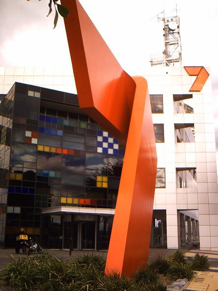 Photo of the Seven Network headquarters in Melbourne, Australia. Taken by cls in August 2006.